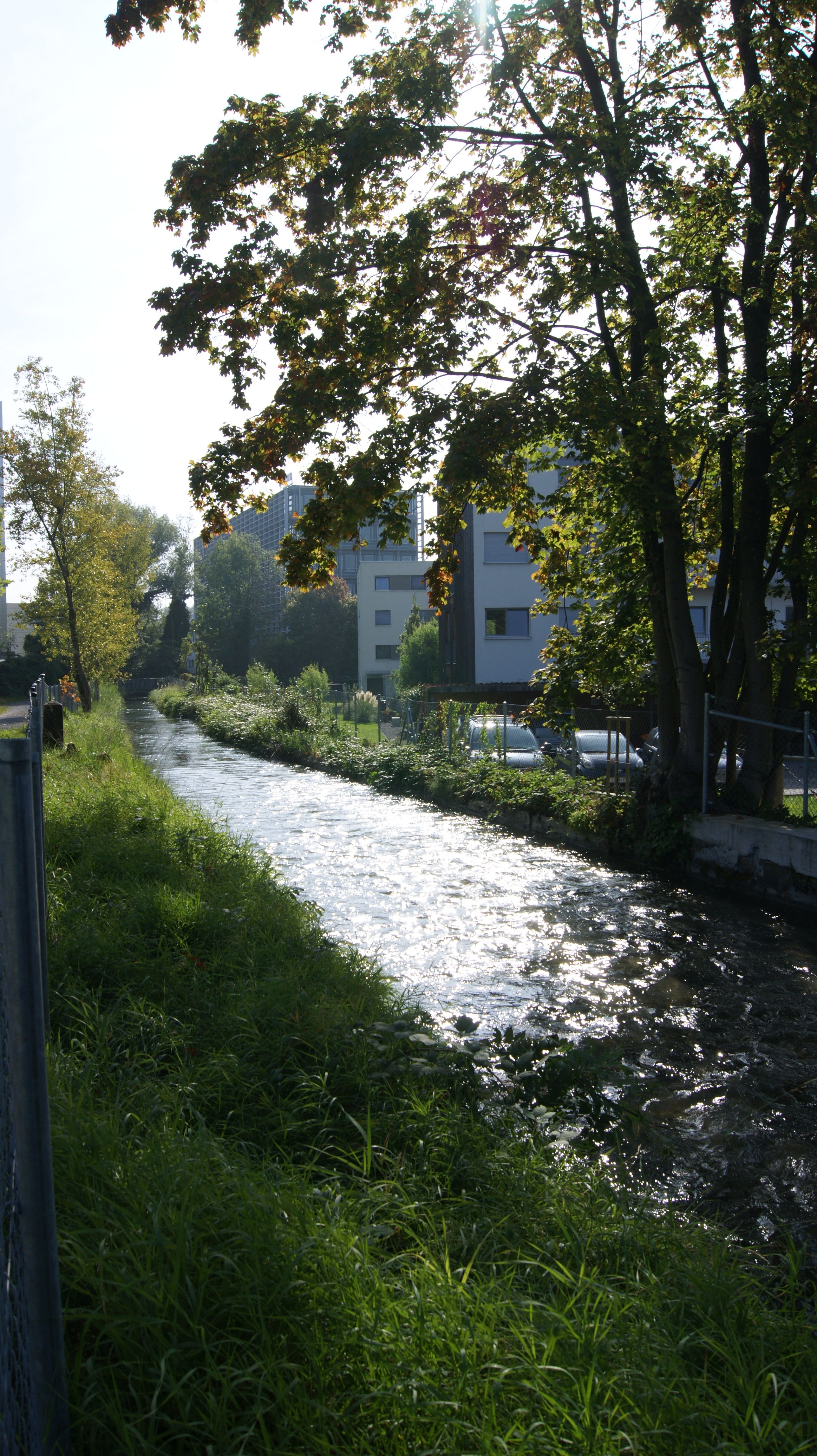 Muellerbach, Dornbirn, Vorarlberg, Österreich